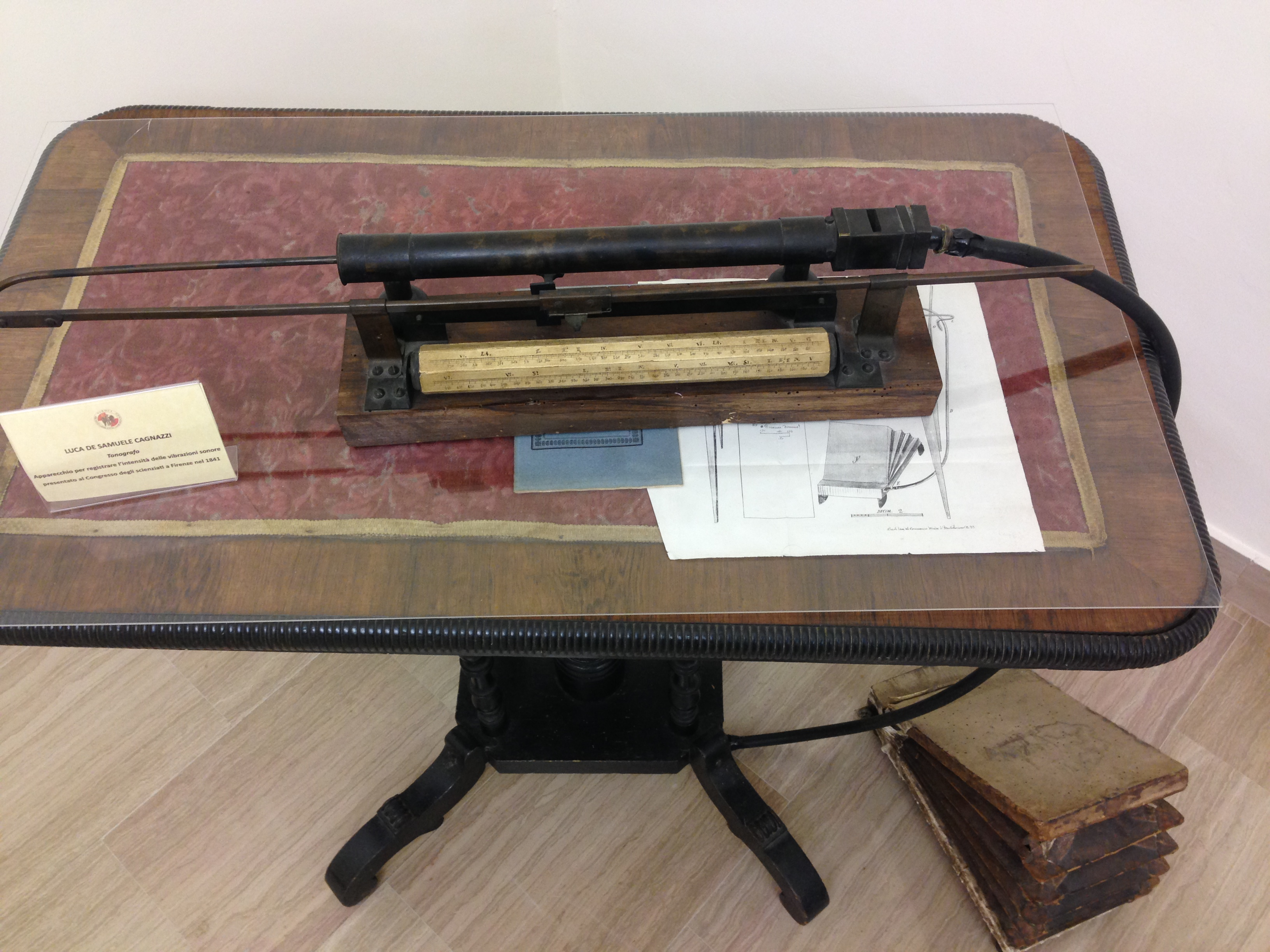 Tonograph - Acoustics - Device invented by Luca de Samuele Cagnazzi (1764-1852) - device stored inside A.B.M.C. - Altamura